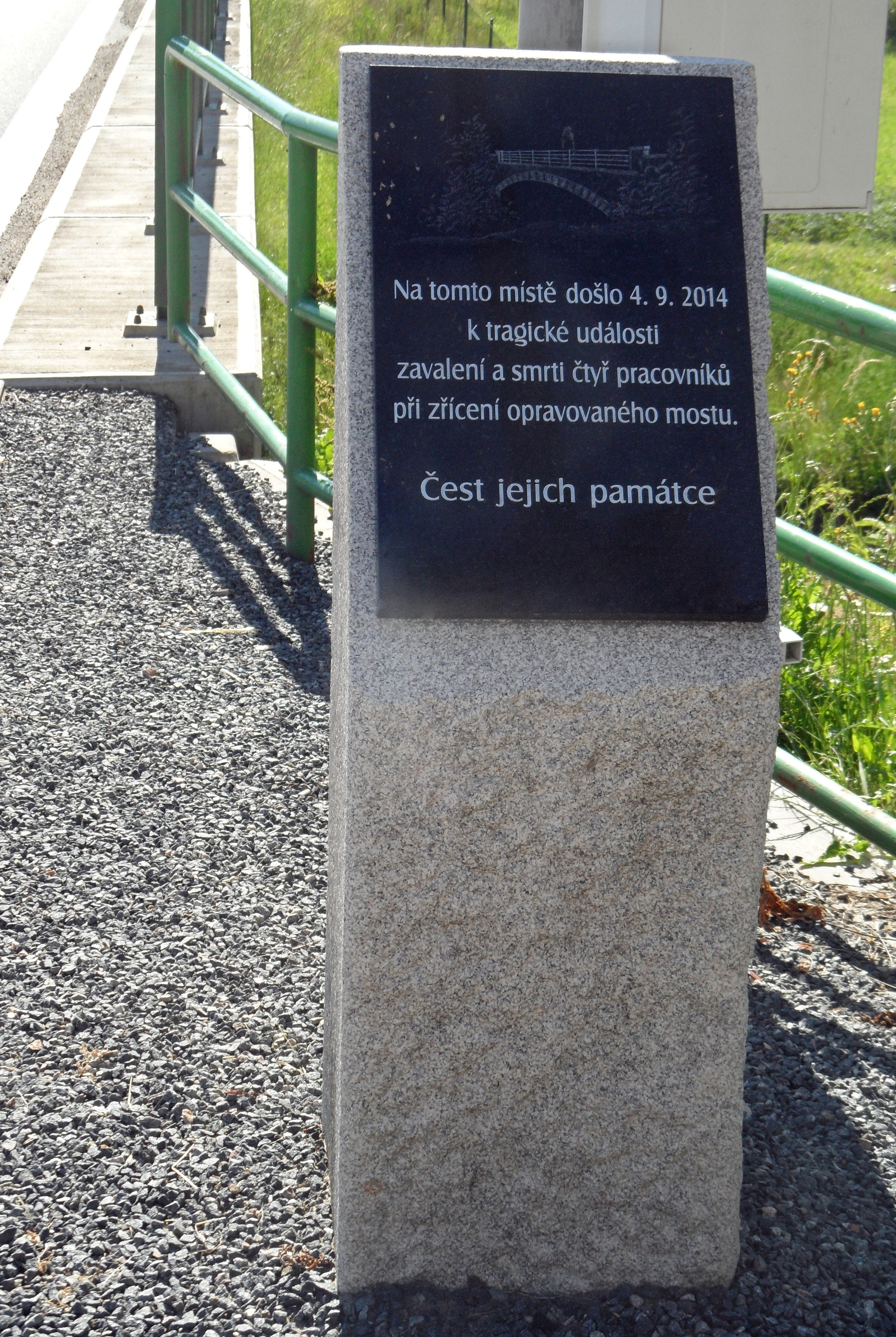 Vilémov, Memorial Plaque of Victims of Collapsed Bridge (Overview). Havlíčův Brod District, the Czech Republic.